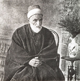 Mirza Aqa Jan Kashani, Khadim, the amanuensis of Baháʼu'lláh